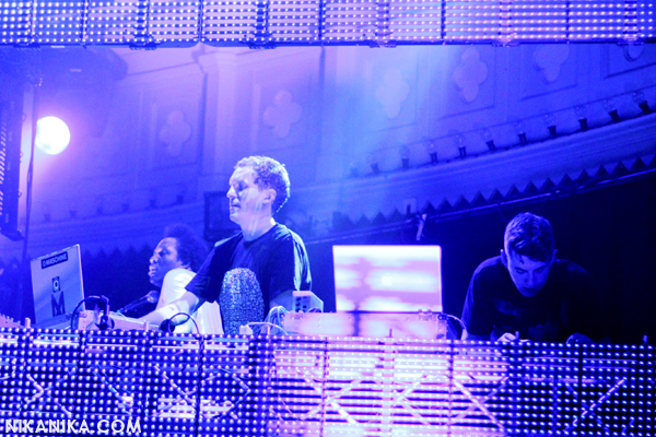 artists Magnetic Man, Skream, Benga, Artwork El Gingo Visuals, Paradiso venue, Oi! event at Amsterdam Dance Event[1]